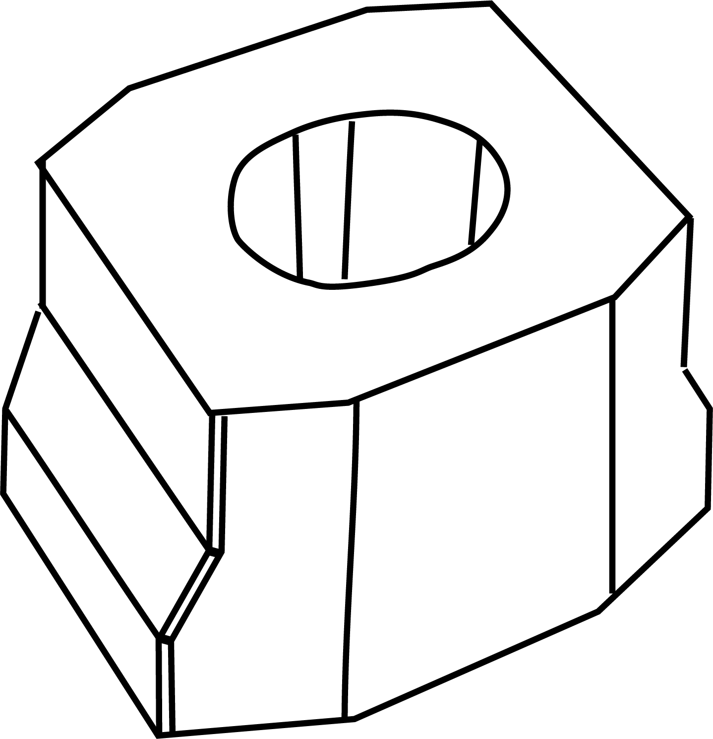 Haro Breakwater block, a concrete block for armouring breakwaters. Belgian invention by Julien de Rouck